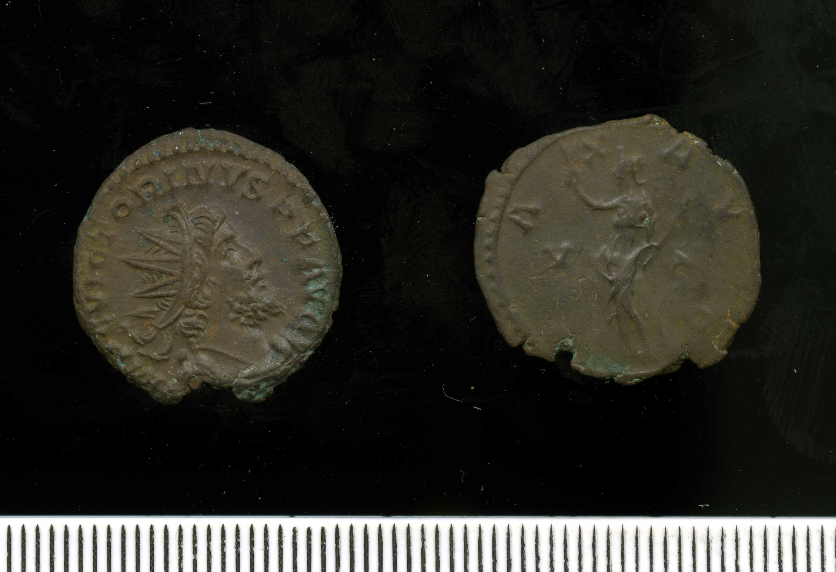 Bronze radiate of Victorinus 269-71 (11 2) Obv + Rev Added from Flickr stream. See the source, Frome Hoard and Portable Antiquities Scheme for more details.